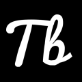 Write more than 140 characters, upload up to 10 images,tall tweets, Twitter blog. Extend Twitter even more.